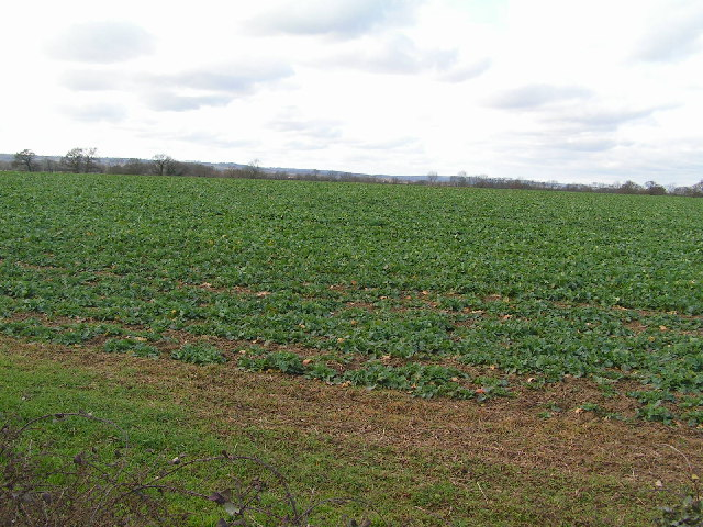 Turnip field.